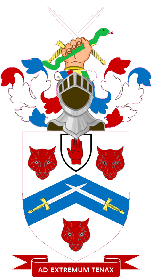 The armorial achievement of the Macready baronets of Cheltenham